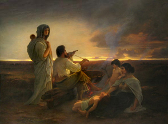 Gypsy family in the Puszta